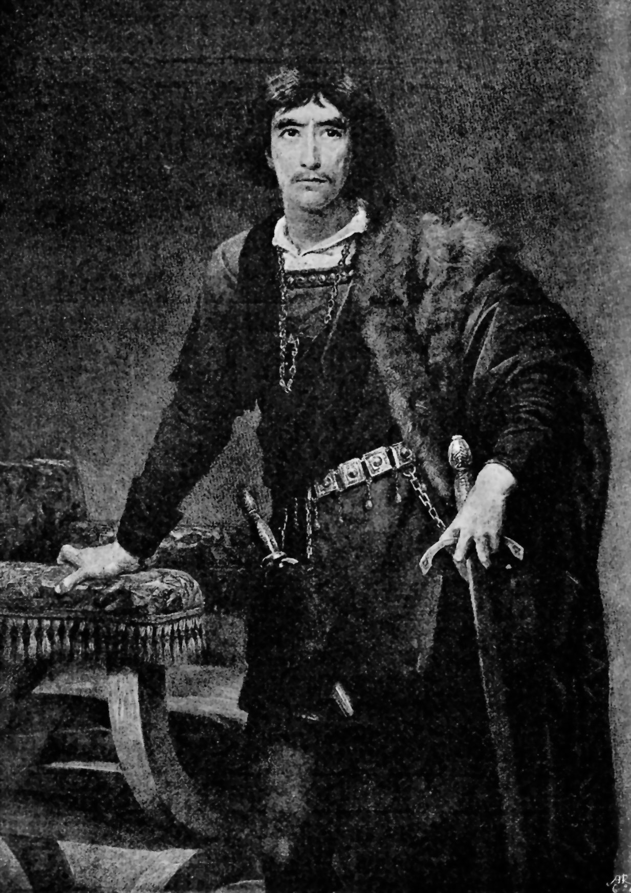 Henry Irving, as Hamlet, in a 1893 illustration from The Idler From Project Gutenberg eBook #12223 Title: The Idler, Volume III., Issue XIII., February 1893 An Illustrated Monthly. Edited By Jerome K. Jerome & Robert Barr Author: Various Release Date: May 1, 2004 [EBook #12223] from from from